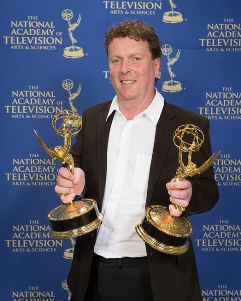 Doran at the 34th Annual News and Documentary Emmys